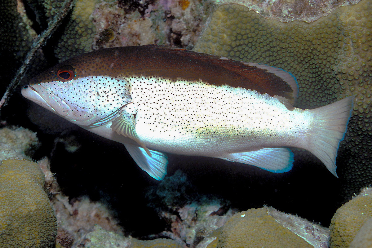 The coney (Cephalopholis fulva) can assume many different color variations. This would be the "oreo cookie" look.Bicolor Coney